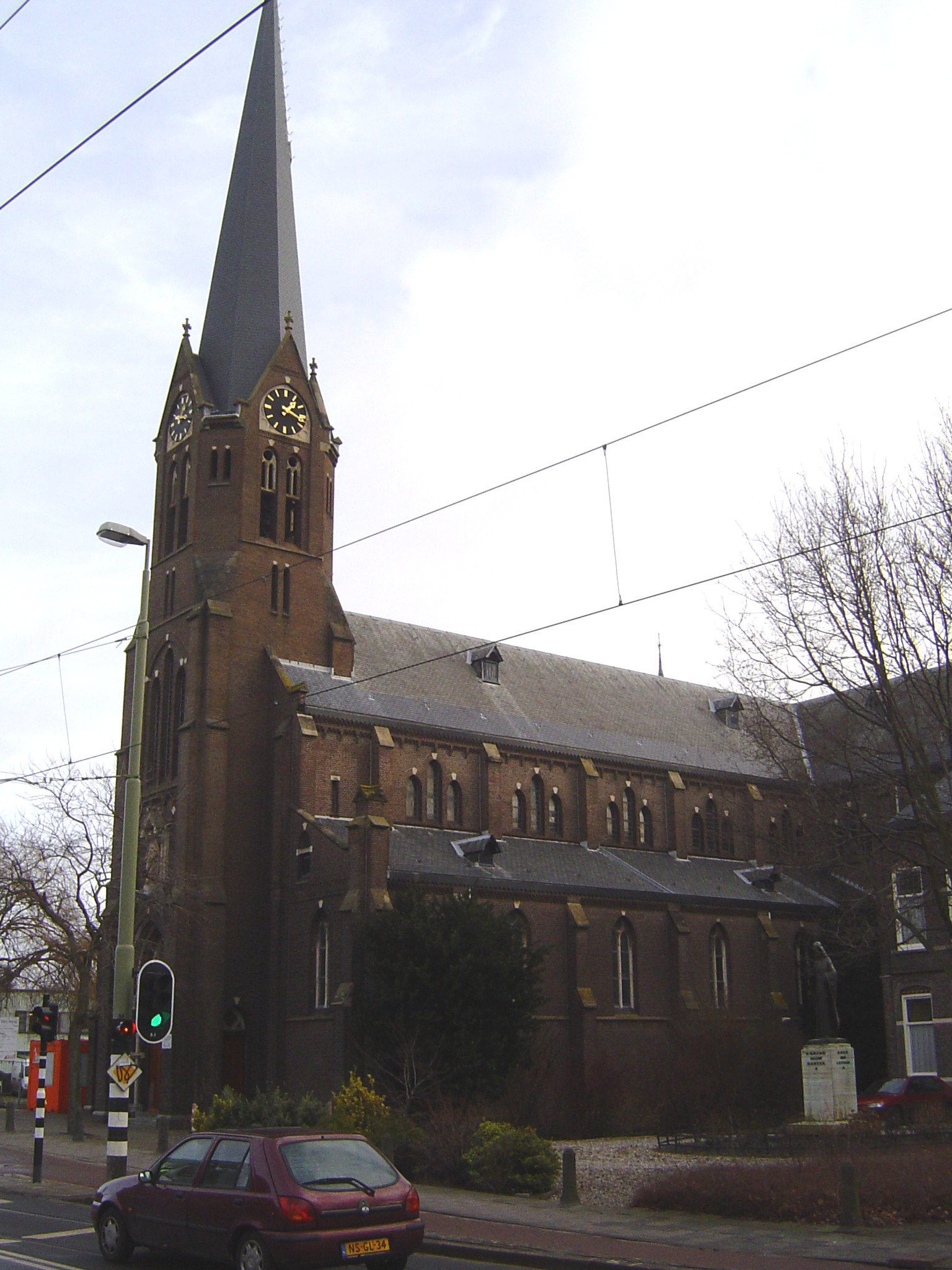 Church OLV Hemelvaart, Loosduinen - The Hague